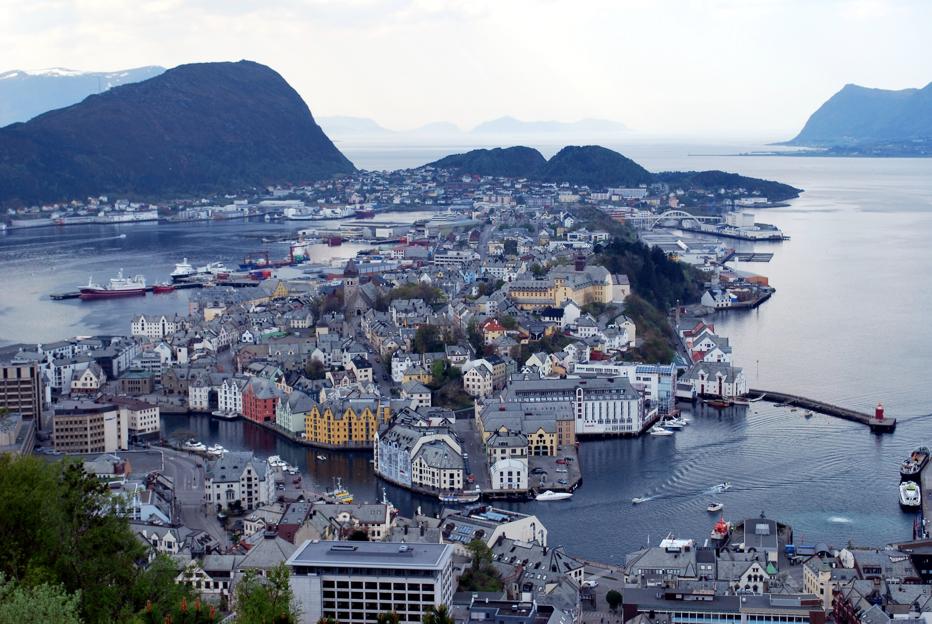 View of Ålesund, Norway.